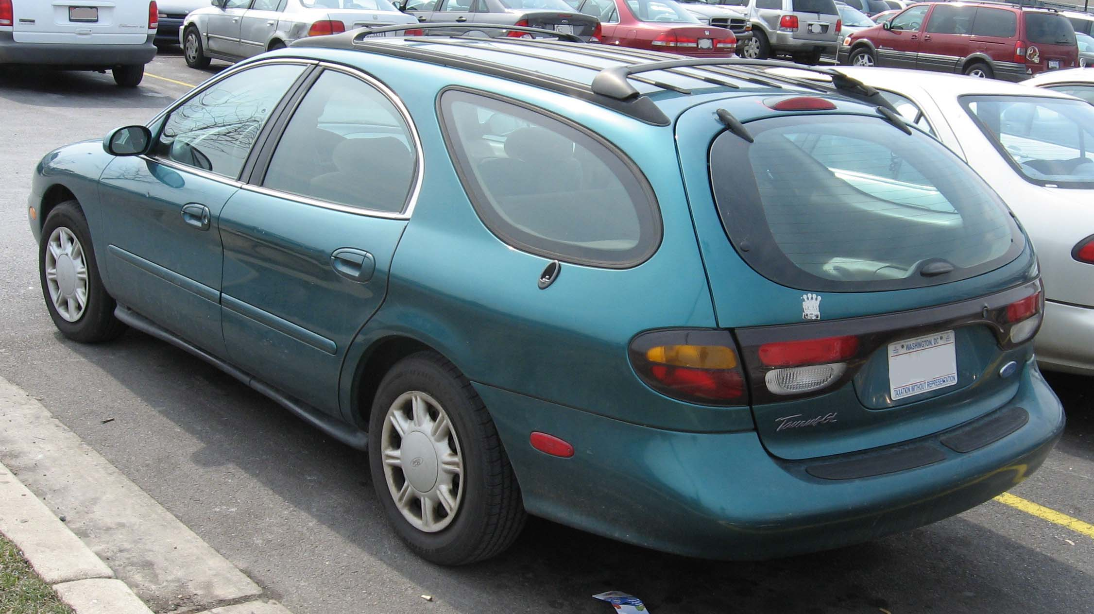 1996-1999 Ford Taurus photographed in USA.